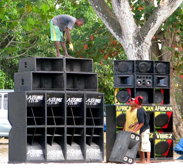 Preparings for Sound System performance